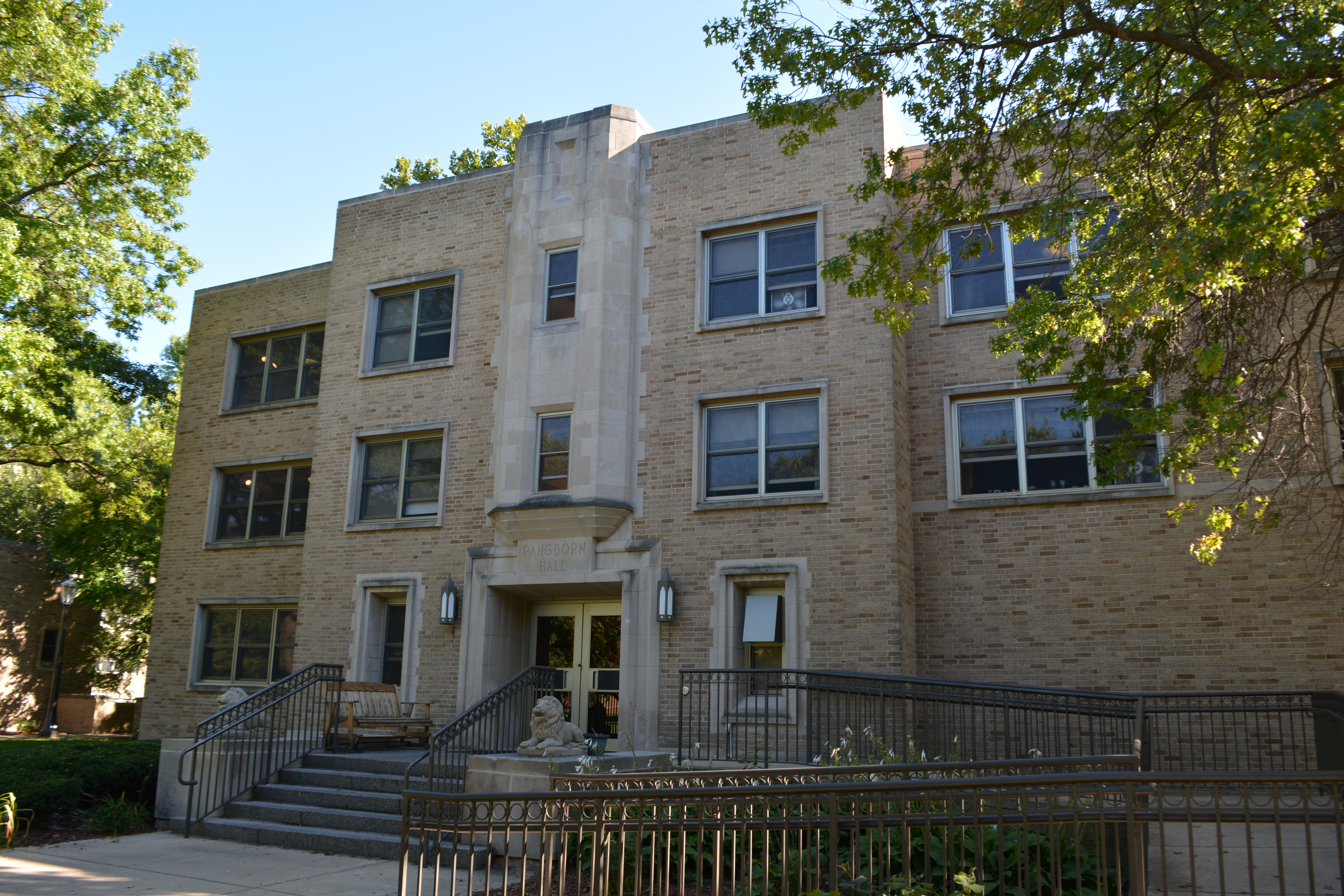 Campus of the University of Notre Dame